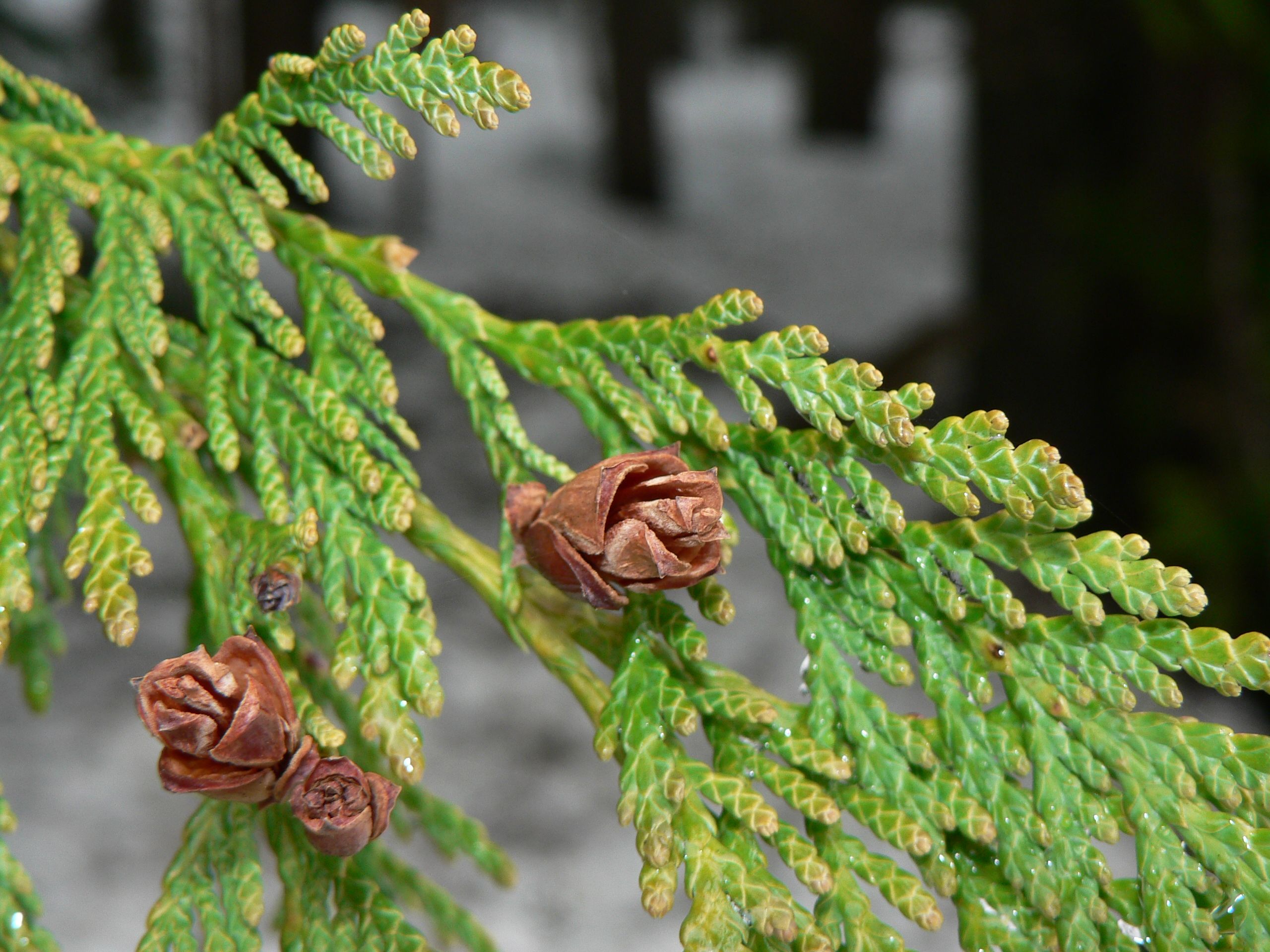 Western Red Cedar, Canoe Cedar; female cones